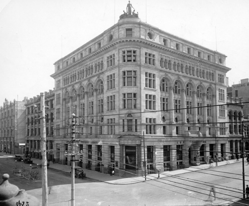 The AMP Chambers at the intersection of St Georges Terrace and William Street in Perth, Western Australia, around 1929.